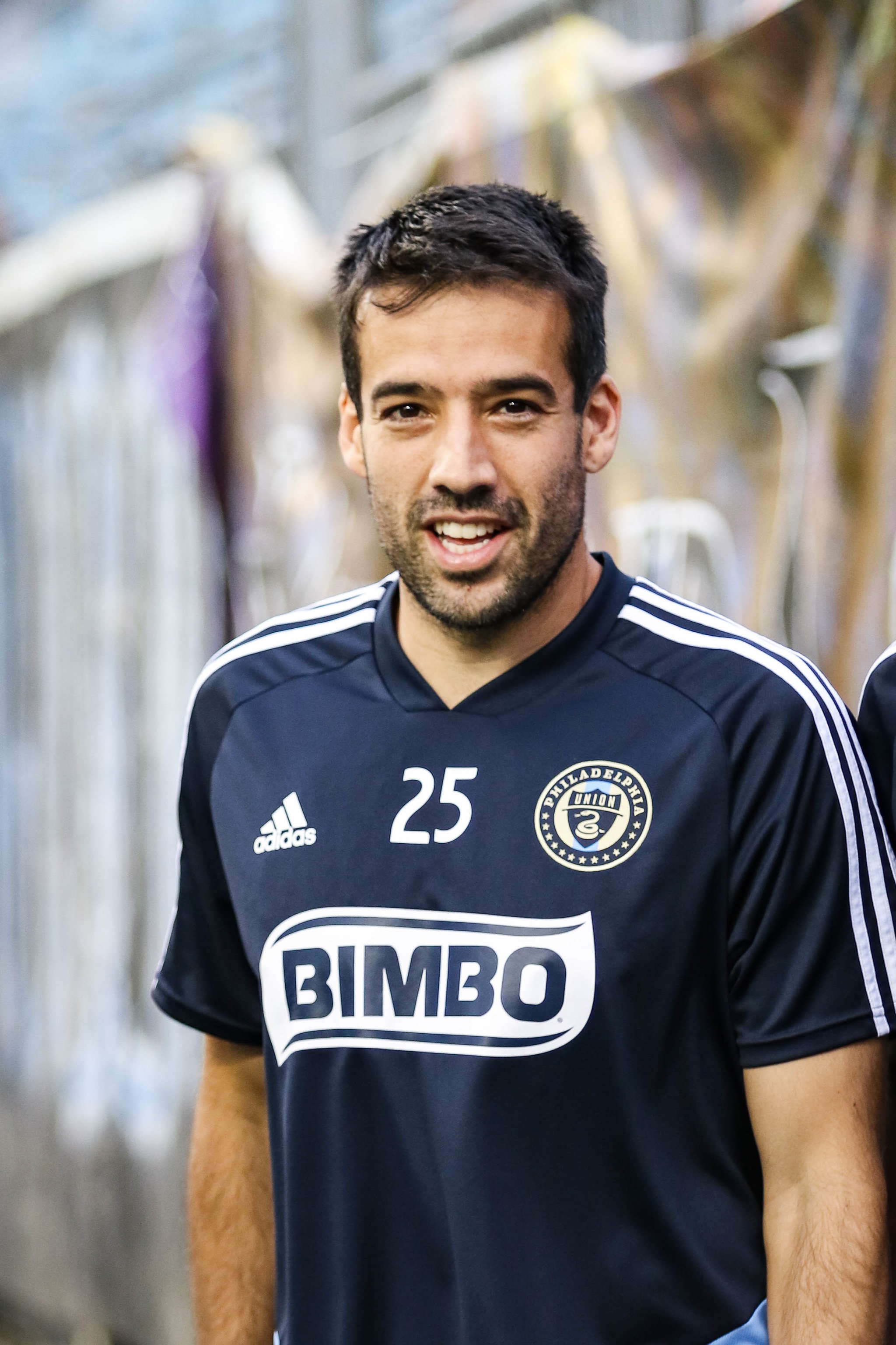 Ilsinho playing for Philadelphia Union.